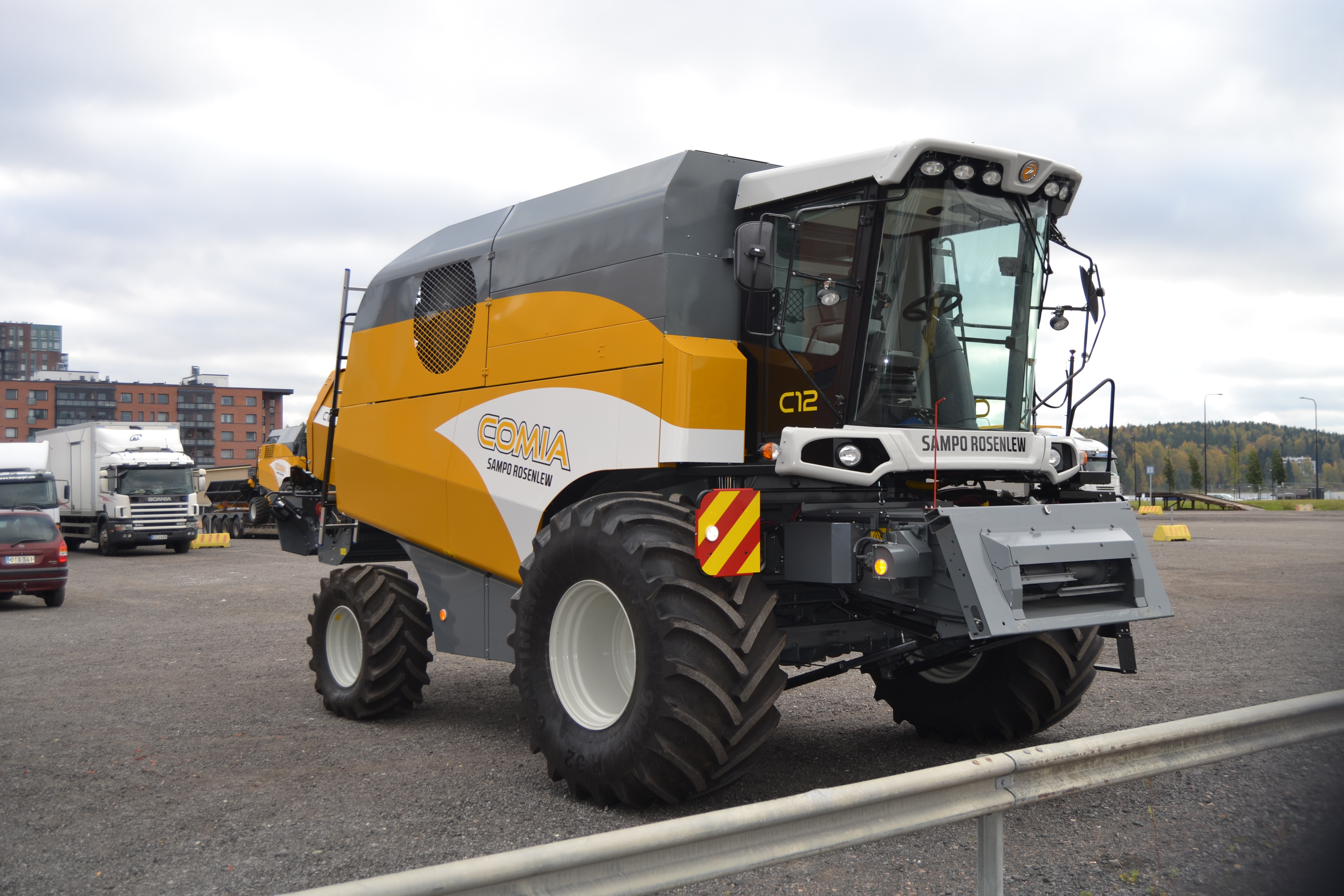 Sampo Rosenlew Comia C12 combine in Jyväskylä, Finland